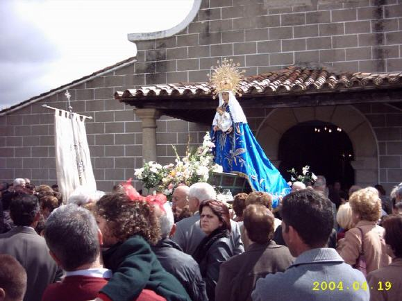 Navelonga Cilleros